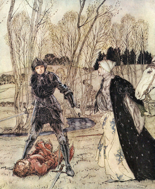 "How Beaumains defeated the Red Knight, and always the damosel spake many foul words unto him." From The Romance of King Arthur (1917). Abridged from Malory's Morte d'Arthur by Alfred W. Pollard. Illustrated by Arthur Rackham. This edition was published in 1920 by Macmillan in New York.